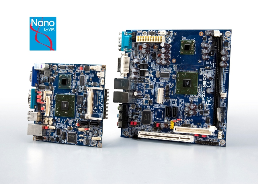 This is an image of the new VIA EPIA-M800 Mini-ITX Board and the VIA EPIA-N800 Nano-ITX Board from VIA Technologies, shown together.